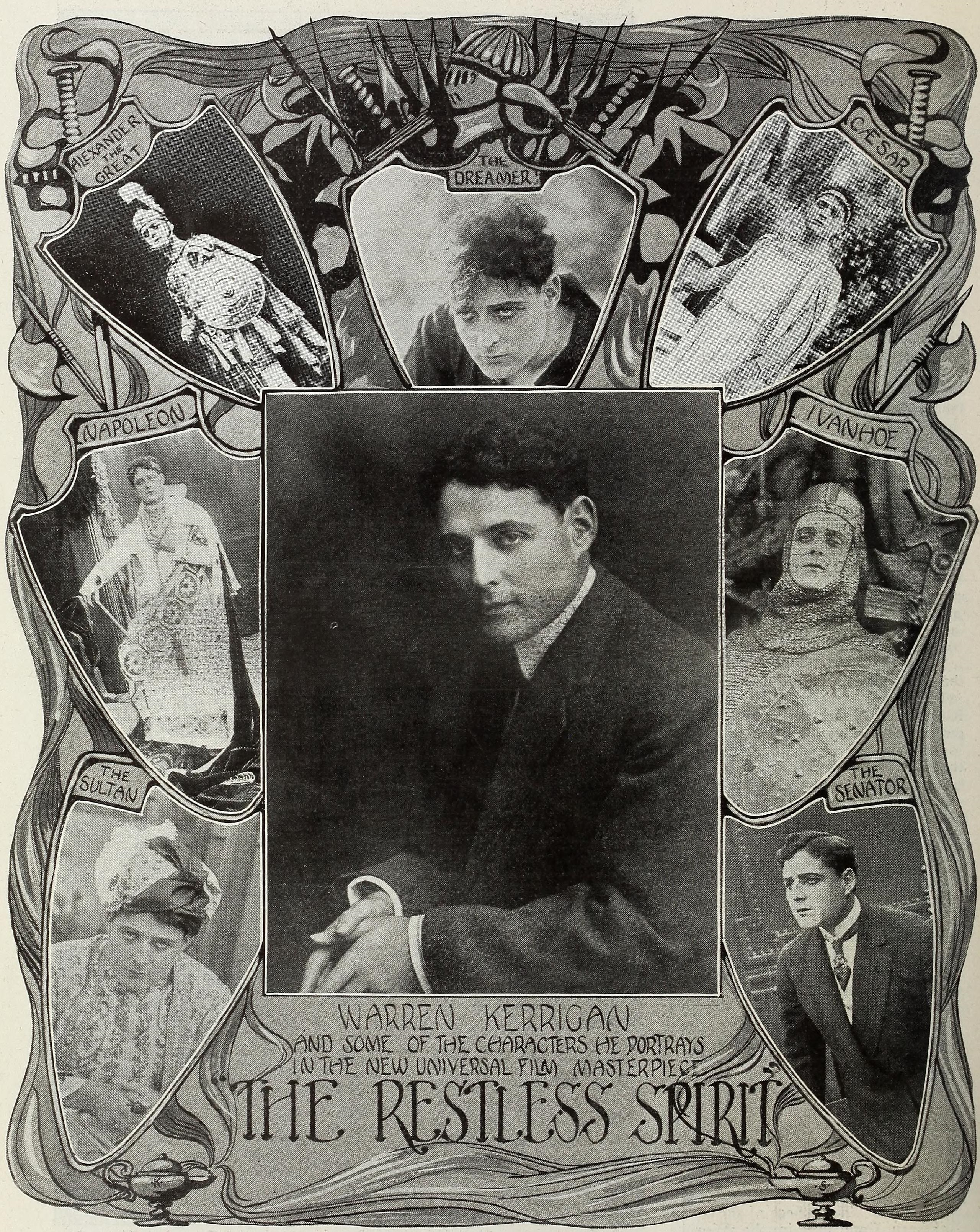 A full page ad for The Restless Spirit showing J. Warren Kerrigan's roles in the film. The image comes from a volume of Motion Picture News.